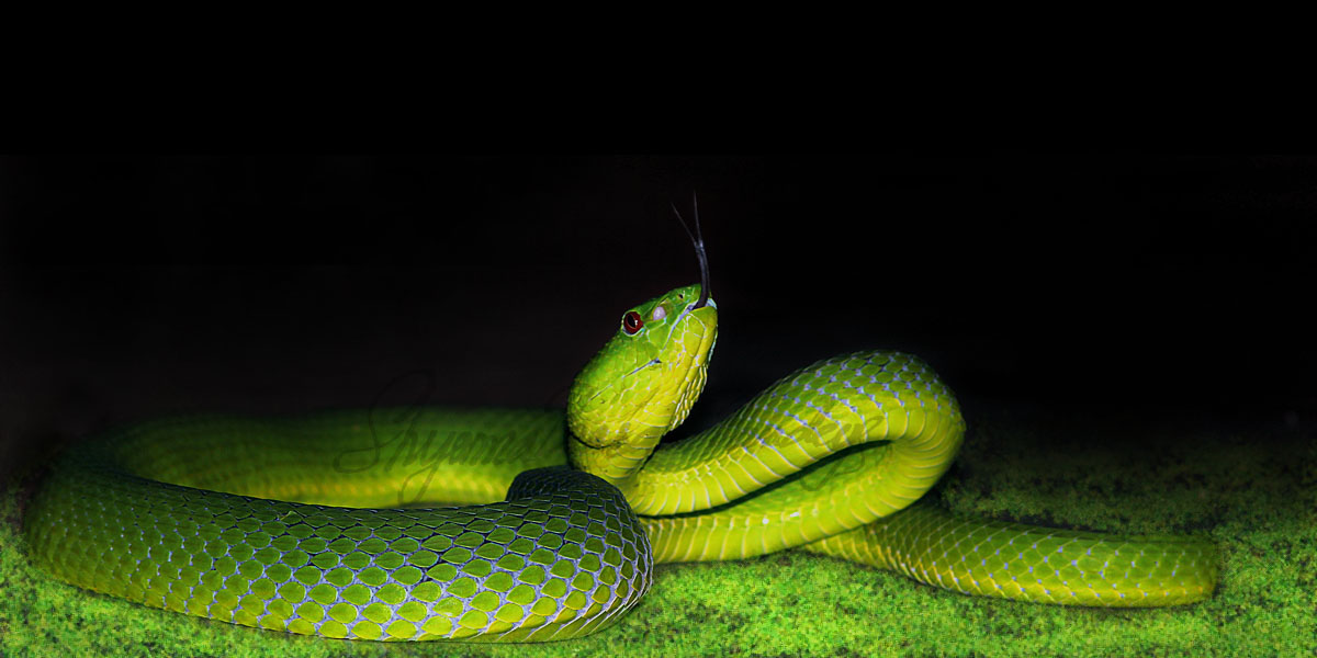 Trimeresurus popeorum is a venomous pitviper species endemic to northern India, Southeast Asia, and parts of Indonesia